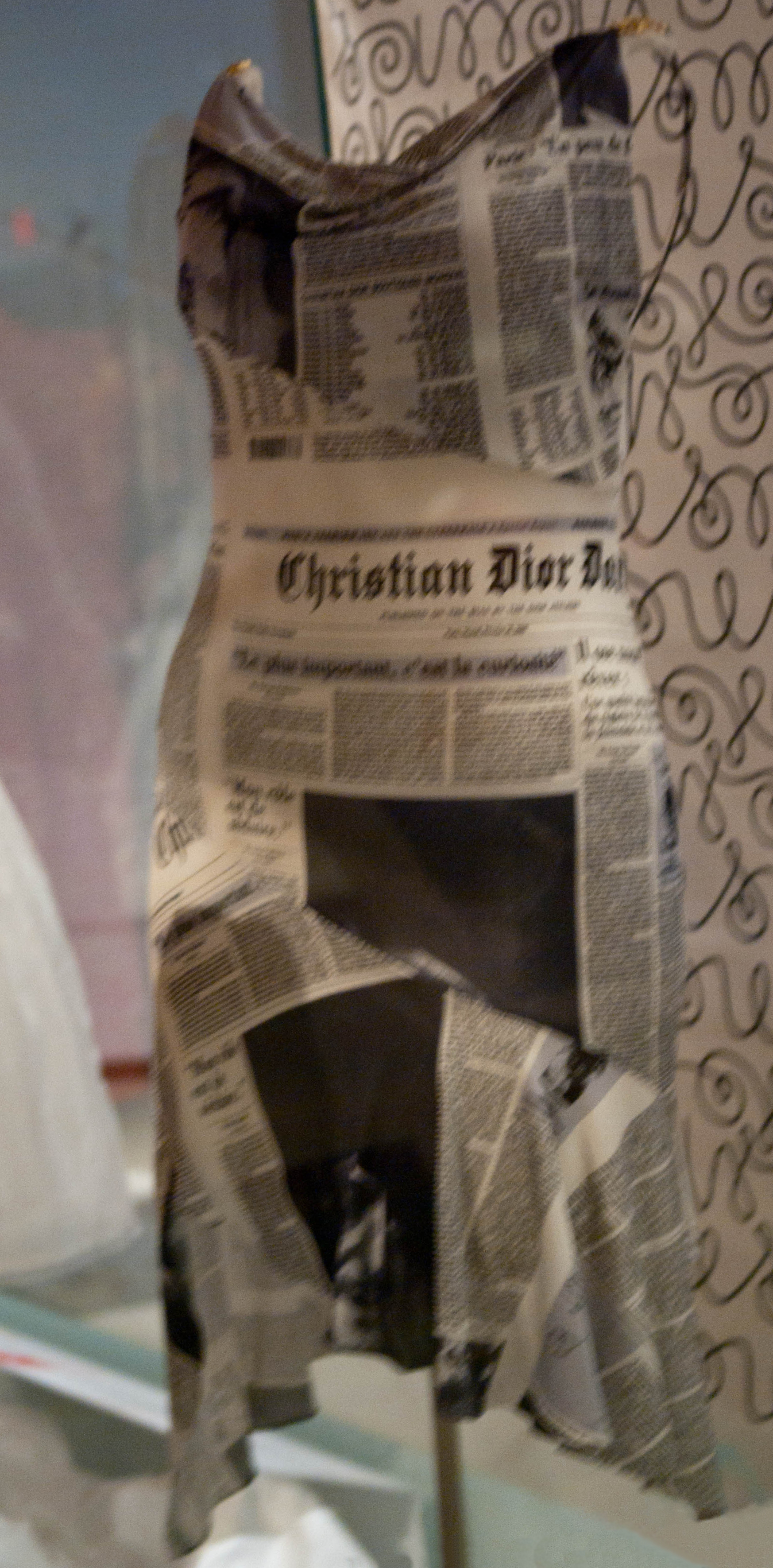 John Galliano design newspaper dress for Christian Dior label, on display at the Royal Ontario Museum in 2011